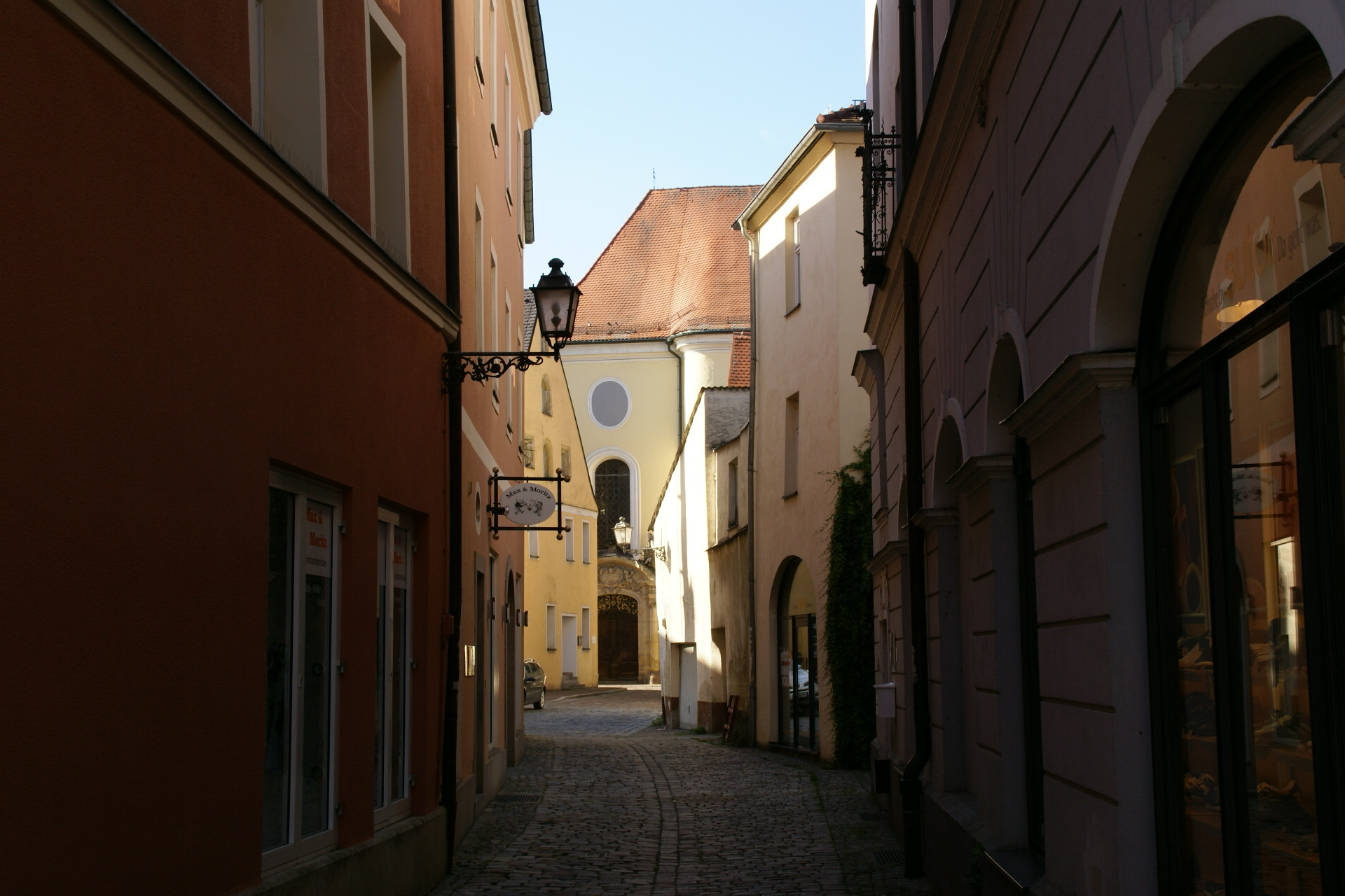 Schulkirche as seen from the Löwenwirtsgäßchen in Amberg, Germany